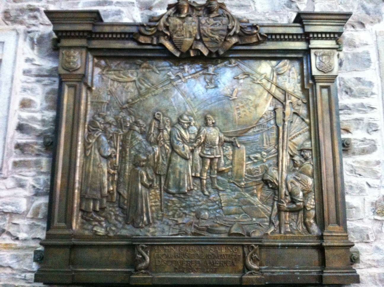 John Cabot Plaque, Dingle Tower, Halifax, Nova Scotia